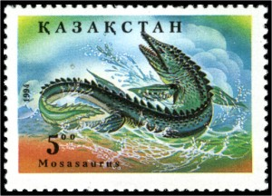 Stamp of Kazakhstan